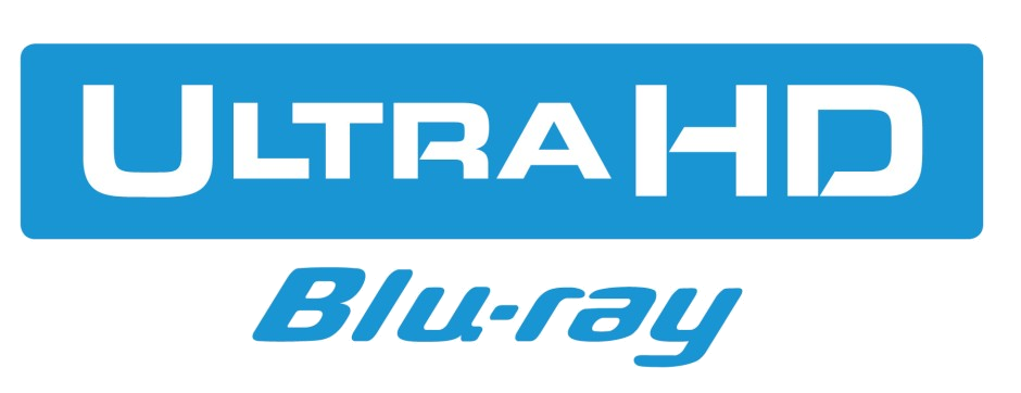 Ultra HD Blu-ray logo